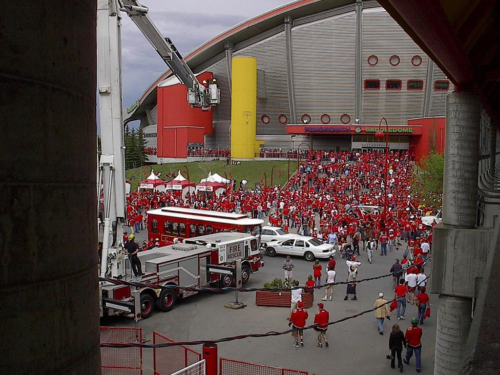 Fans arriving at the Pengrowth Saddledome before a Stanley Cup Playoffs game in Calgary in 2004.